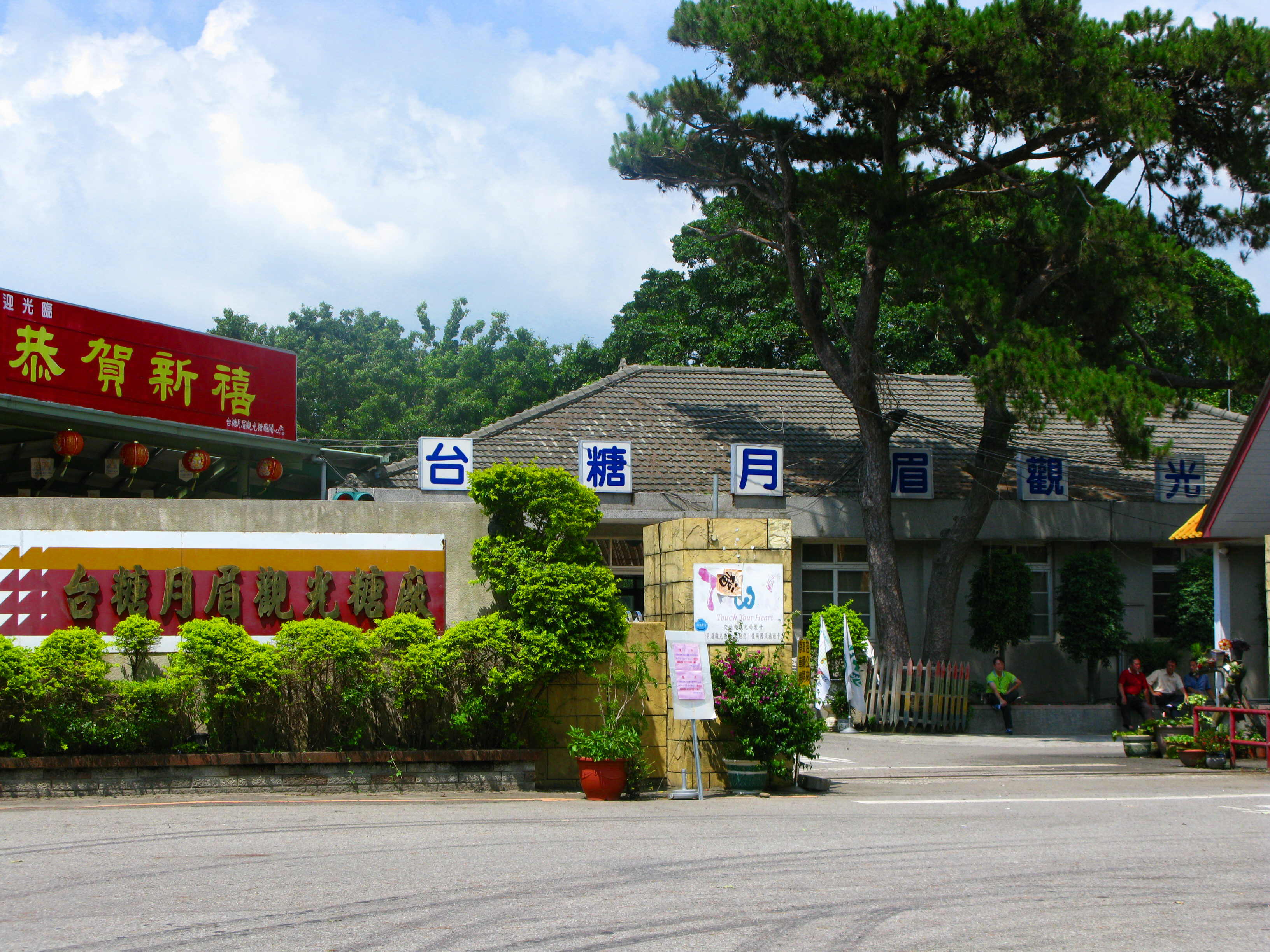 Yamay Tourism Sugar Factory, Taiwan Sugar Corporation.